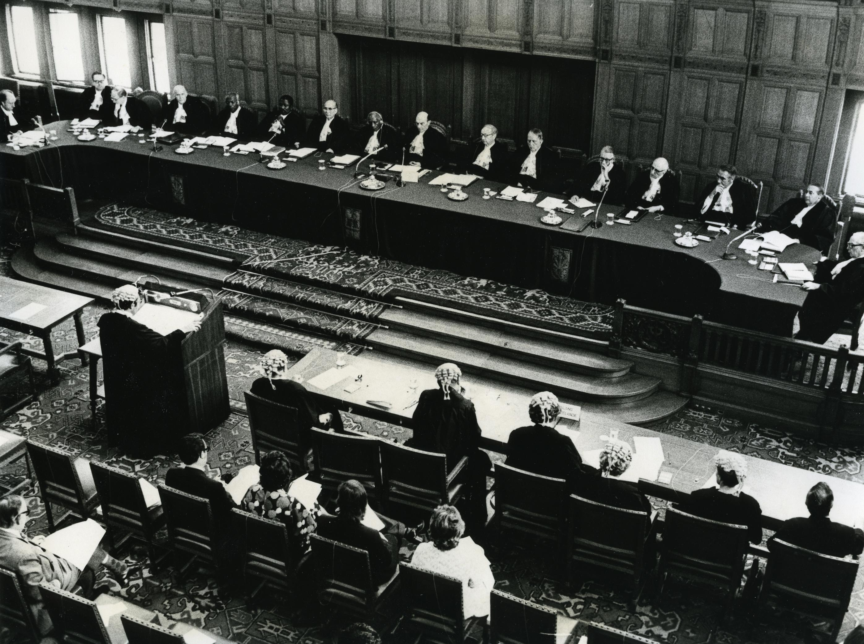 Photographs from the Ministry of Foreign Affairs record group, showing New Zealand representatives at the International Court of Justice in the Hague. From left to right : Solicitor General R. C. Savage, Hon. Dr A.M. Finlay, Mr R.Q. Quentin Baxter. The ruling by the International Court of Justice was part of New Zealand’s long campaign against French nuclear testing in the Pacific. While the French initially ignored the court’s interim injunction and carried on testing in the atmosphere, continuing protests soon forced them to move the tests underground. New Zealanders had actively opposed French nuclear testing since the mid-1960s, when the tests were shifted from the Sahara to its Polynesian territories. Mururoa Atoll in the Tuamotu Archipelago became the focal point for both the tests and opposition to them. Greenpeace vessels sailed into the test site in 1972, delaying tests by several weeks. In 1973 the New Zealand and Australian governments took France to the International Court of Justice in an attempt to ban the tests. France ignored the court’s ruling that they must cease testing, but mounting international pressure forced them to switch to underground tests the following year. Information taken from: ‘World court condemns French nuclear tests', URL: (Ministry for Culture and Heritage), updated 20-Dec-2012 Archives reference: AAEG W2972/1 41